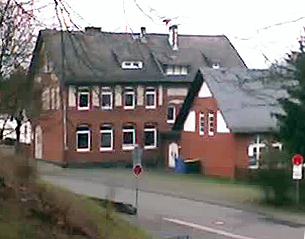 Old school, built in 1907, now named Otfried Preussler school, in Weidenhausen, now part of the city Gladenbach, Landkreis Marburg-Biedenkopf, State of Hesse, Germany